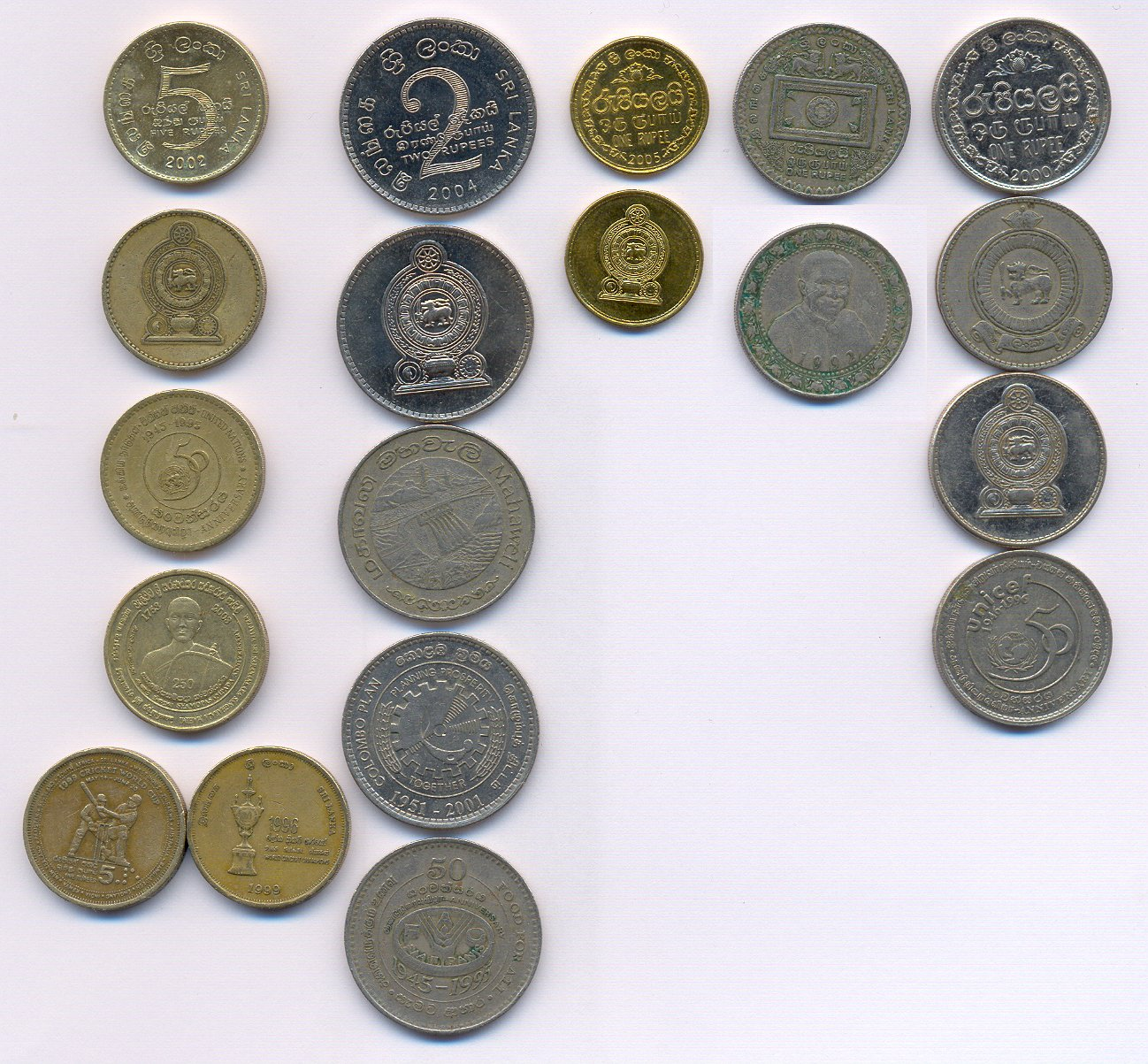 Rupees of Sri Lanka, photo from collection of the uploader